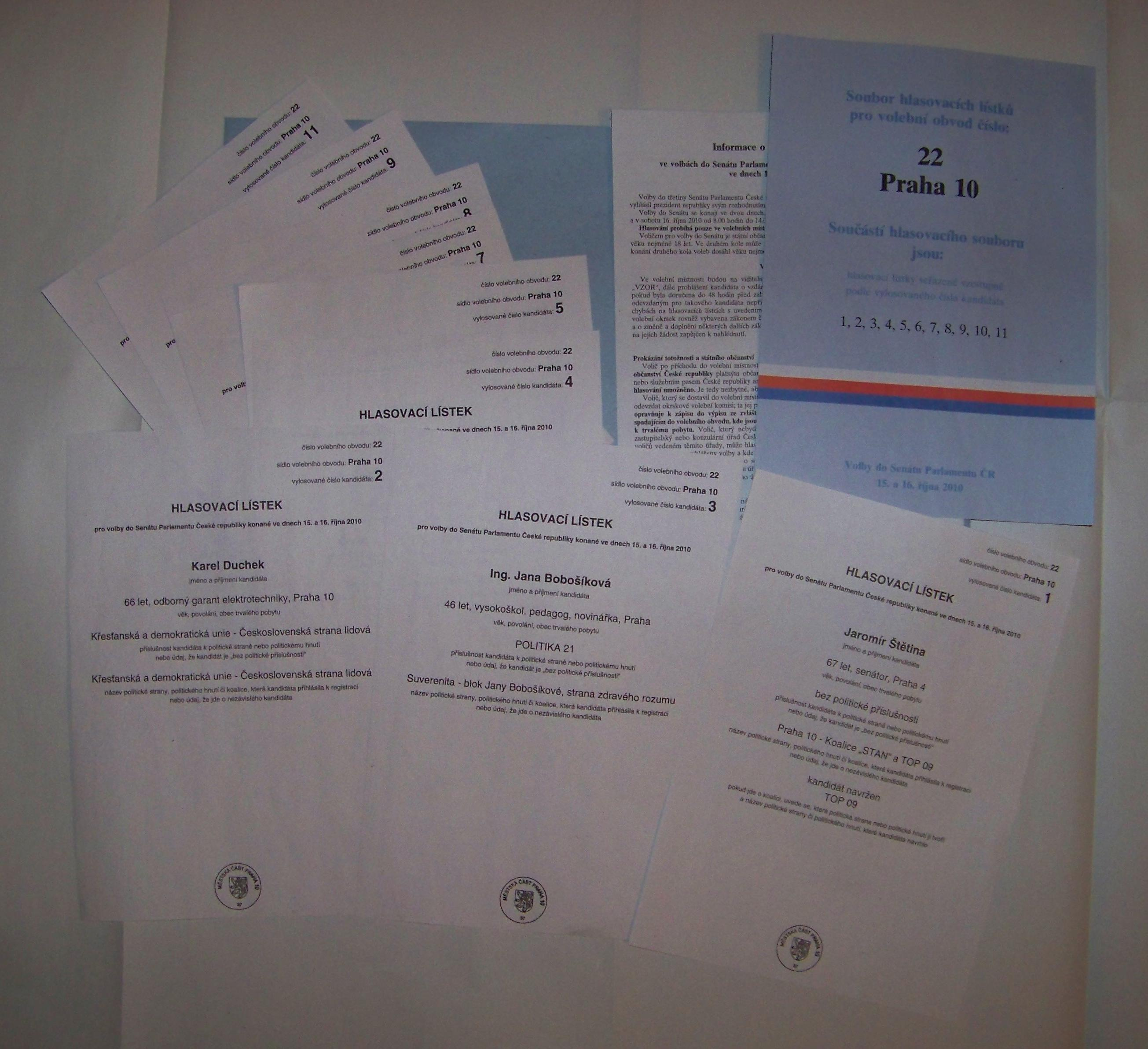 A set of voting papers for Senat election, 2010, Czech Republic. Election district No 22, Prague 10.